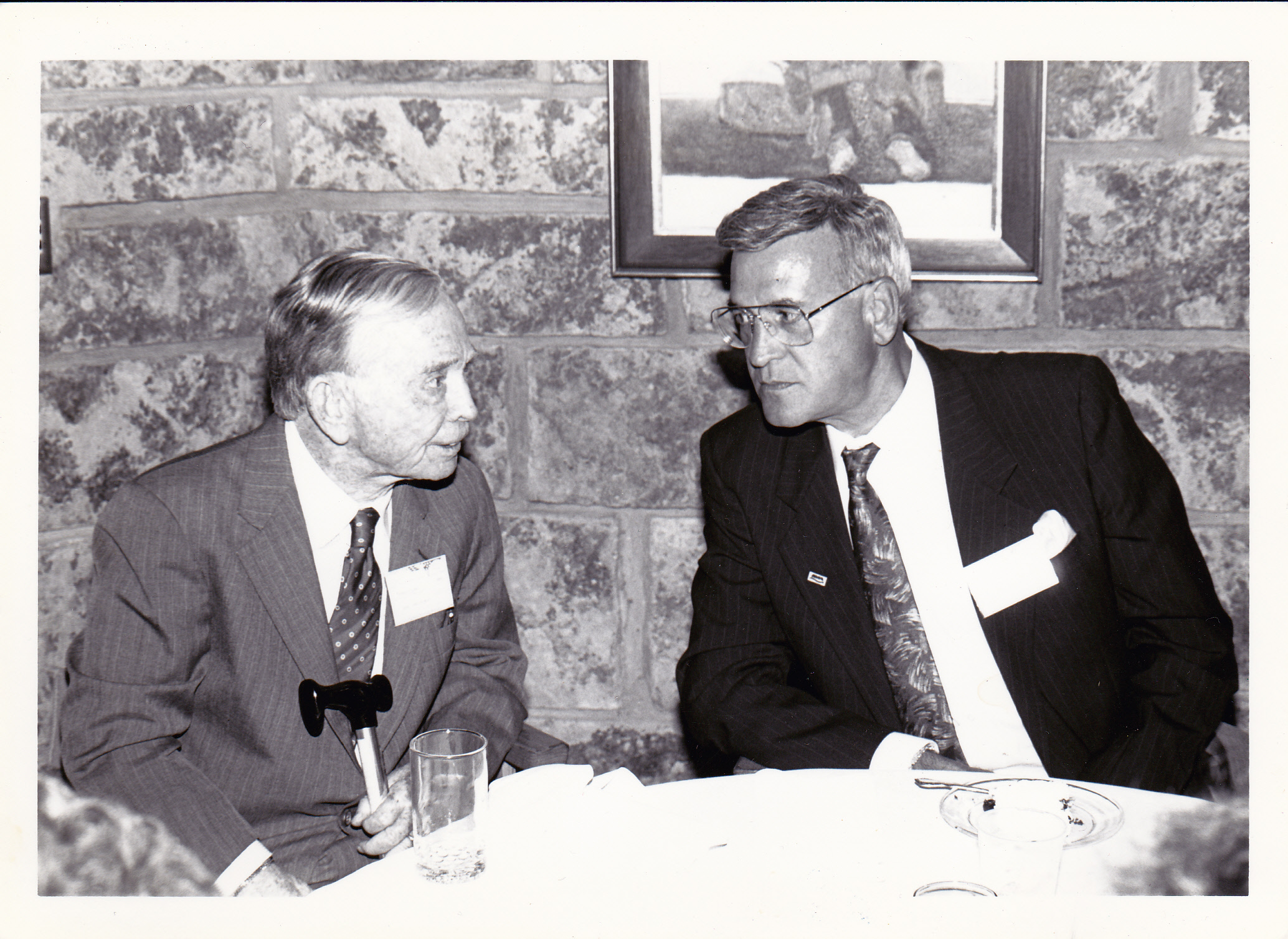 Dr. Joe Ellis White